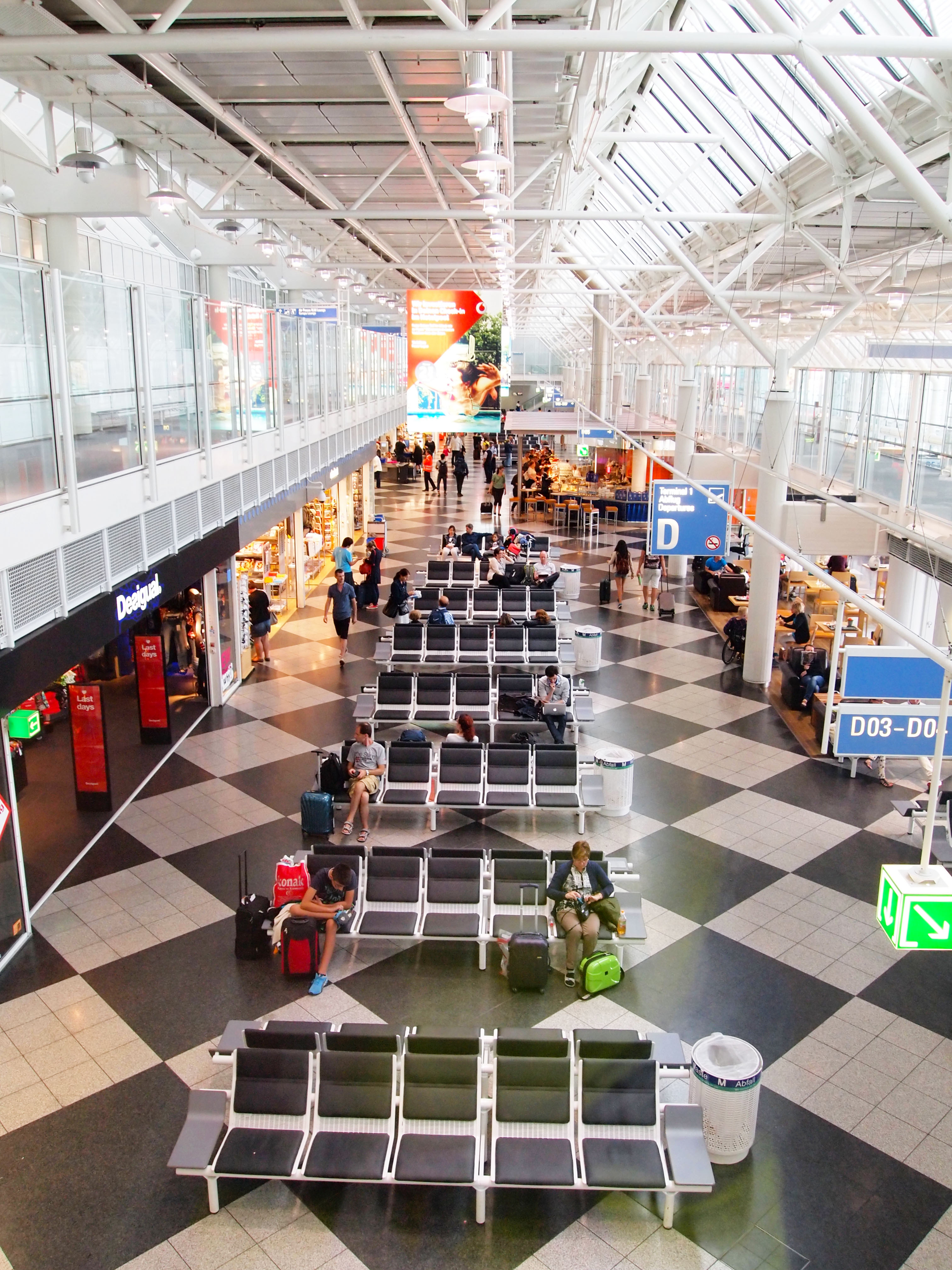 Munich Airport.This photograph was taken with an Olympus E-PL1